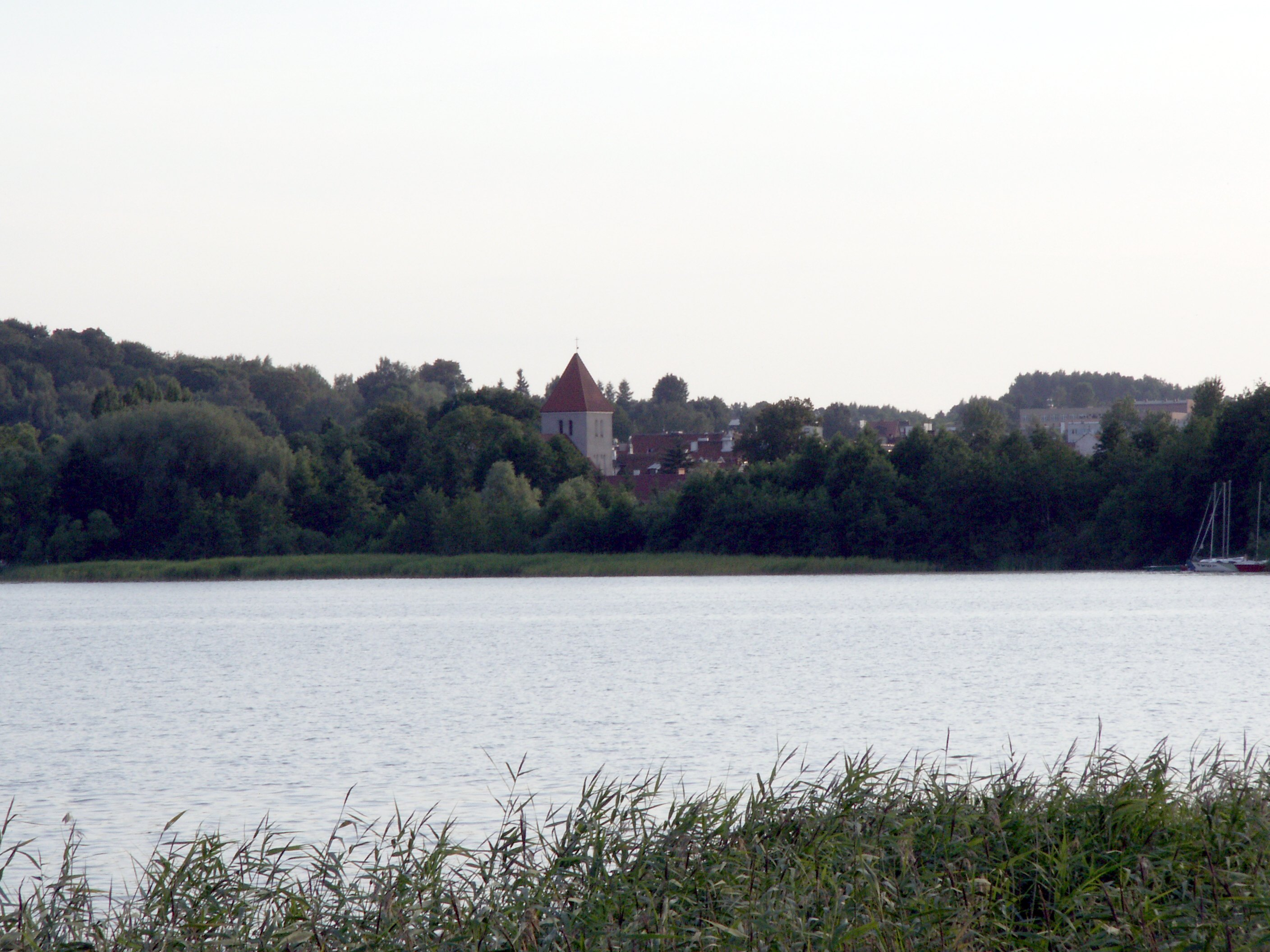 Czos, Poland